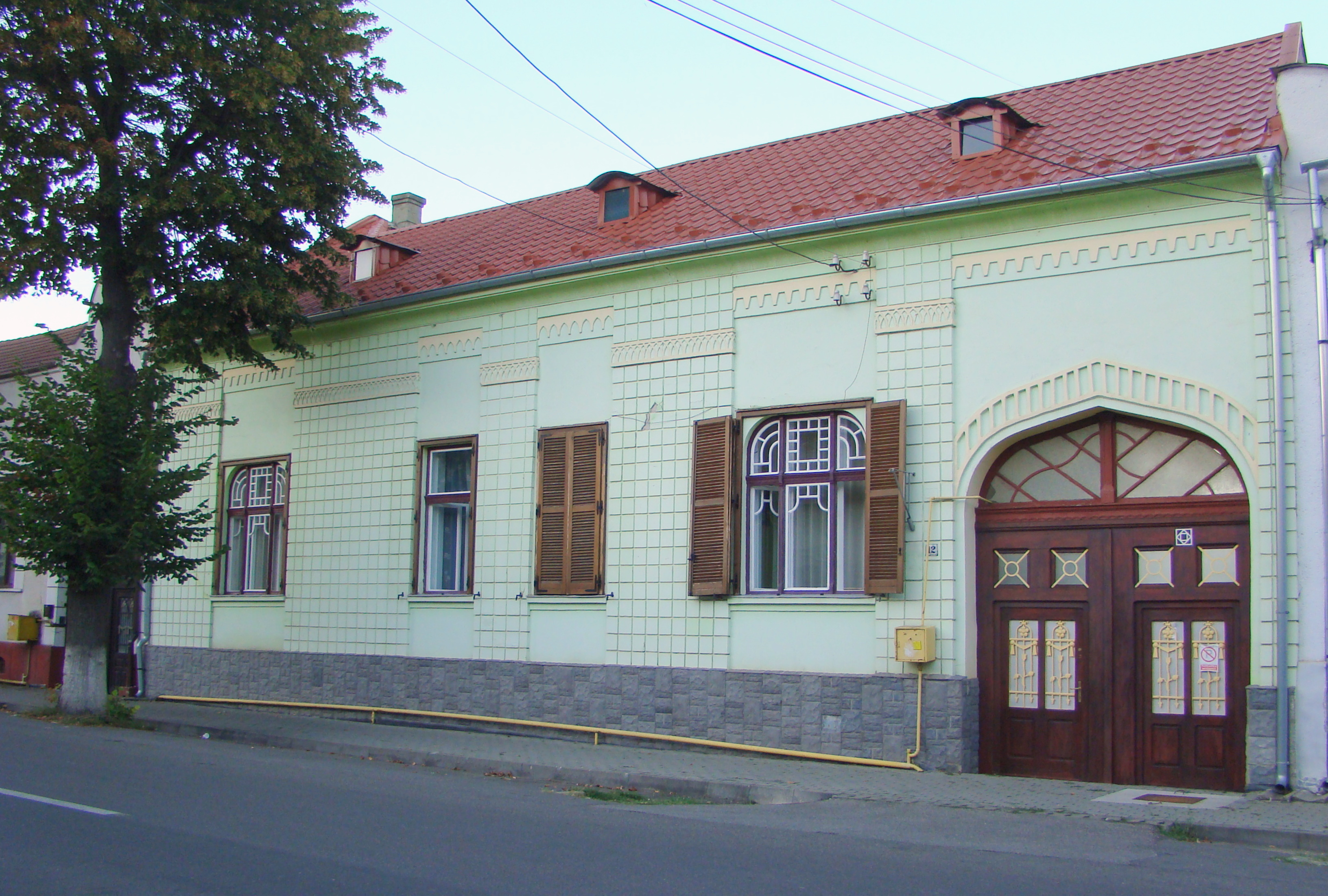 House, historic monument, Teilor street, number 12, Alba Iulia, Alba county, Romania